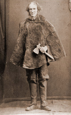 This is the only known photograph of Joseph Bolitho Johns (1830-1900), better known as the Western Australian bushranger Moondyne Joe. It depicts Johns holding a tomahawk and wearing a kangaroo skin cape. The original photograph was taken by Alfred Chopin. It was first published in The Sunday Times on 27 May 1924, as an illustration accompanying an article on Moondyne Joe by Charles William Ferguson. The original photograph somehow ended up in the hands of Norman "Feathers" Featherstone of Lesmurdie, Western Australia, who held on to it until his death in 1980. He had asked a friend, June Bailey, to destroy his collection of photographs after his death, but Bailey reneged. She held the photograph from 1980 until 1998, when she heard of the impending publication of a second edition of Ian Elliott's Moondyne Joe: The Man and the Myth. She then gave it to Elliott, and Elliott used it to grace the cover of his book.[1]